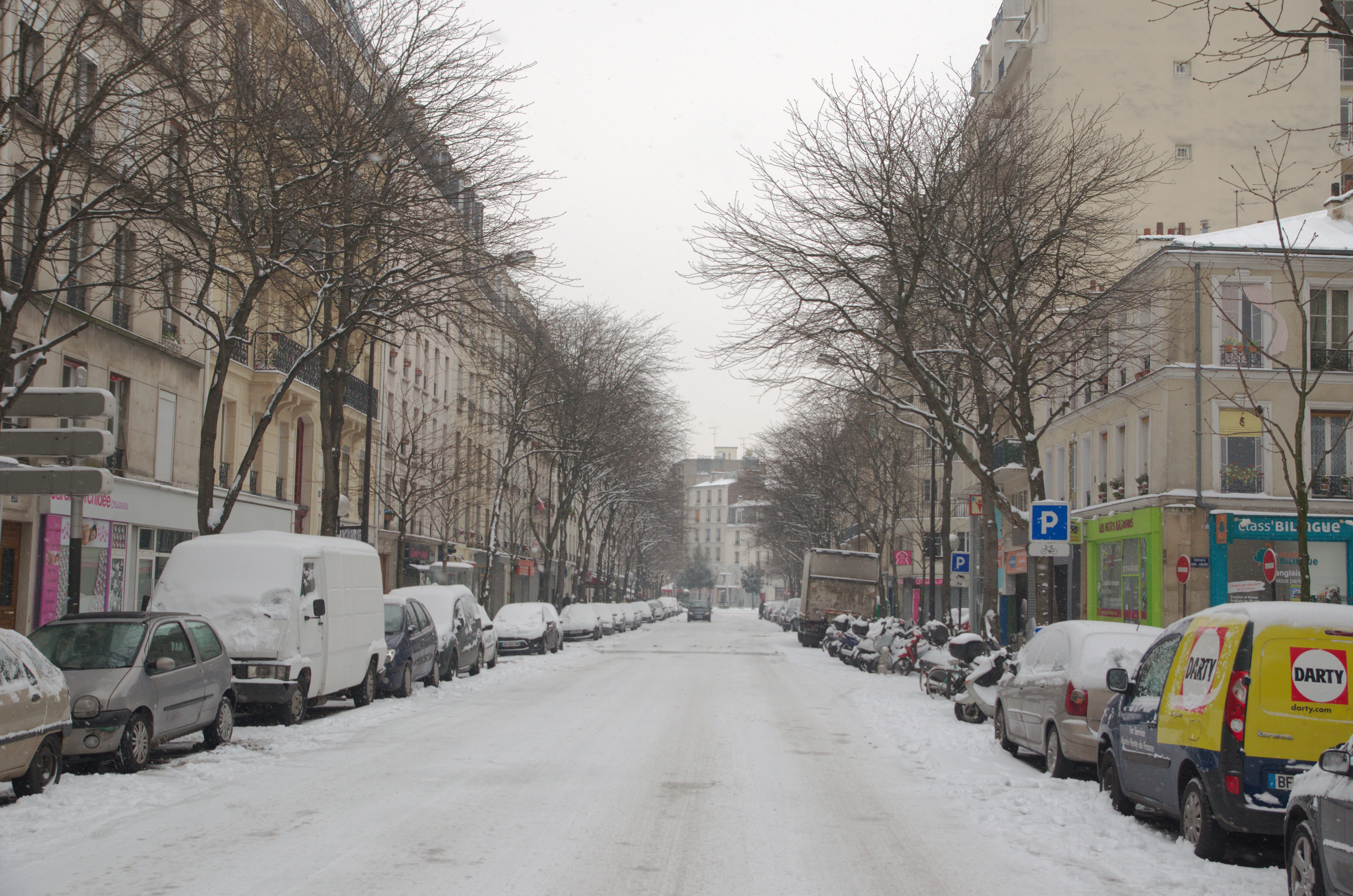 Paris, Crozatier street, covered by snow, january 20, 2013